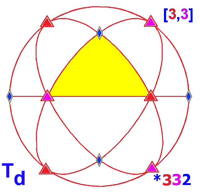 Symmetry Group Td or *332 on the sphere (Tetrahedral reflective symmetry). Yellow triangle is fundamental domain. Numbers are the reflection symmetry order at each node. This full figure also represents the edges of the polyhedron (V4.6.6) tetrakis hexahedron expanded onto the surface of a sphere.